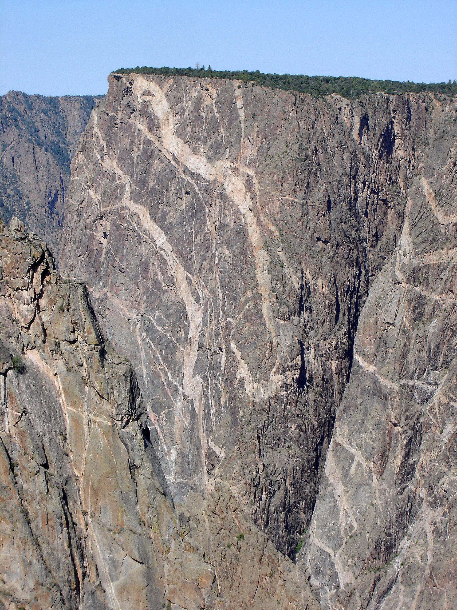 Black Canyon of the Gunnison National Park is a United States National Park located in western Colorado, USA. Taken by myself, Jesse Varner on 7/17/2005 . This photo shows the "Painted Wall" cliff, which is about 670 metres high. Dykes of light-coloured Vernal Mesa pegmatite, about 1.43 billion years old, have intruded into dark-coloured gneiss, which is about 1.73 billion years old.